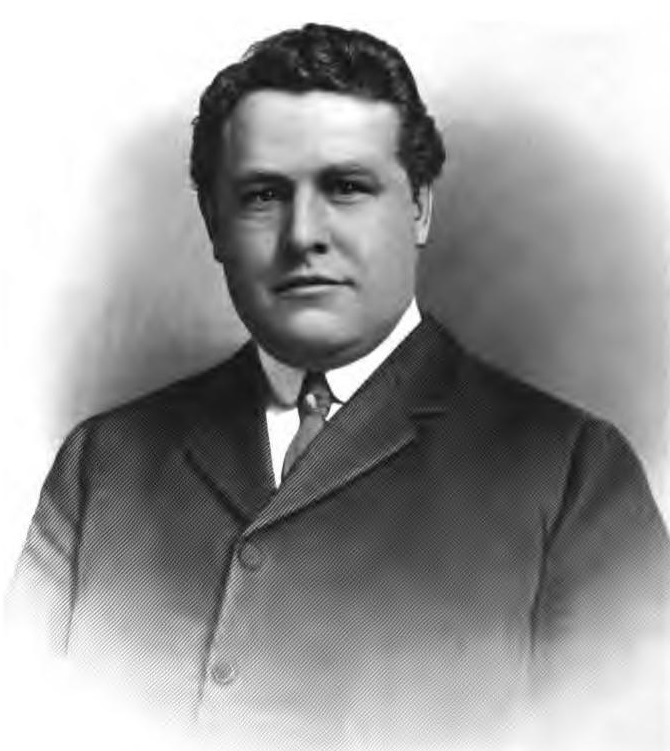 Everett J. Lake (Connecticut Governor)